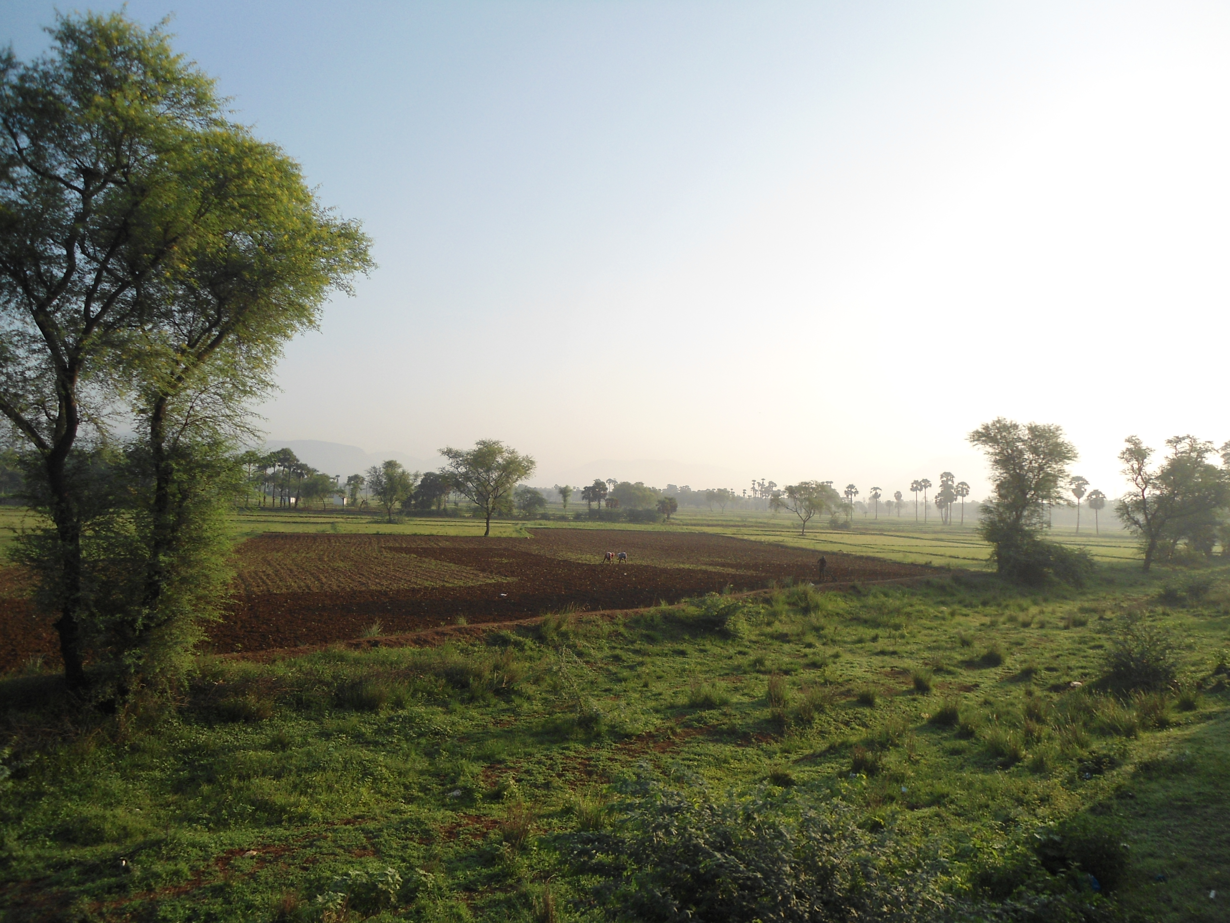 A morning view of fields near Elamanchili in Visakhapatnam district